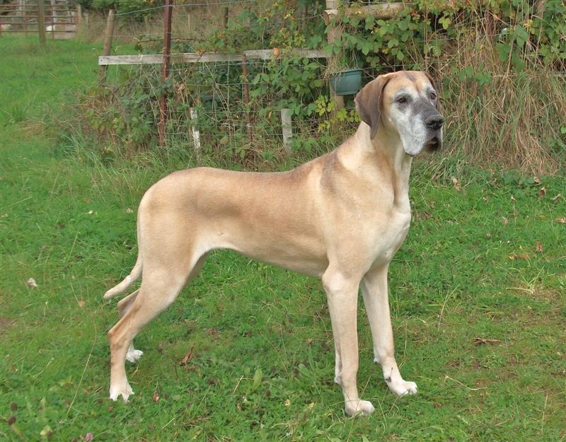 my Great Dane Lucy